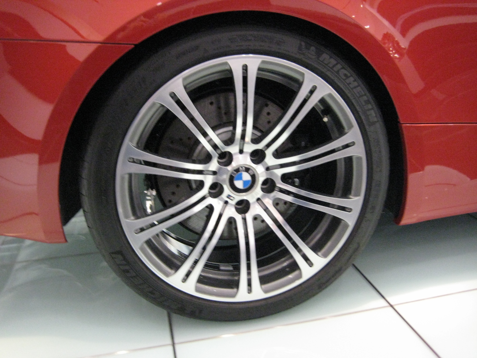 BMW E92 M3 Coupé Wheel